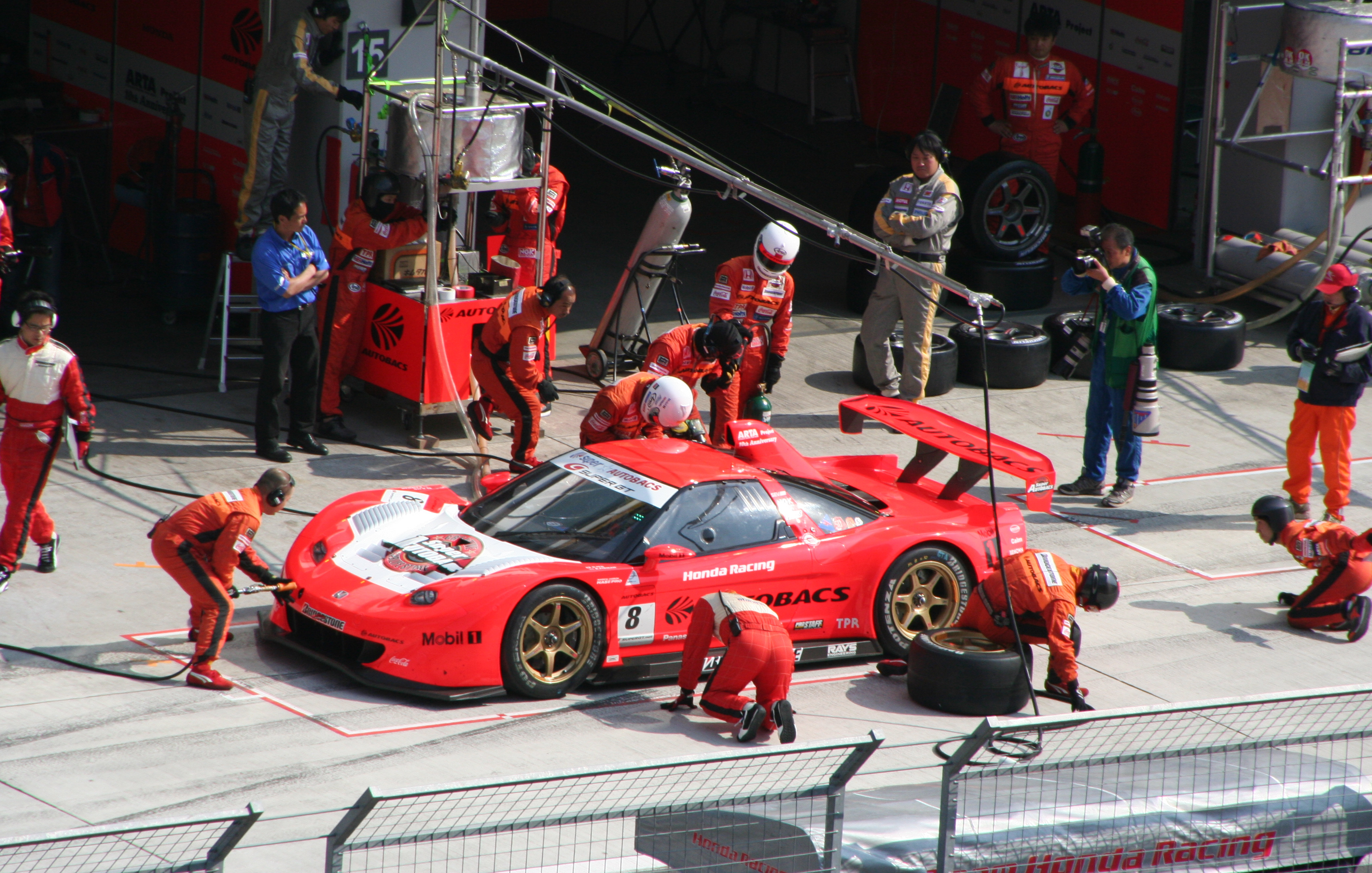 An Autobacs Racing Team Aguri Honda NSX in the SuperGT series